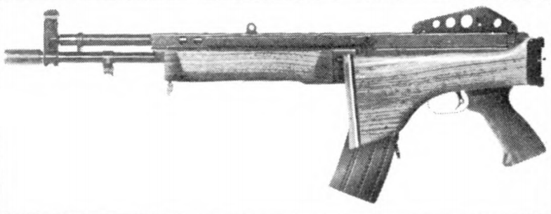 The Stoner 63 Weapon System in the "carbine" configuration